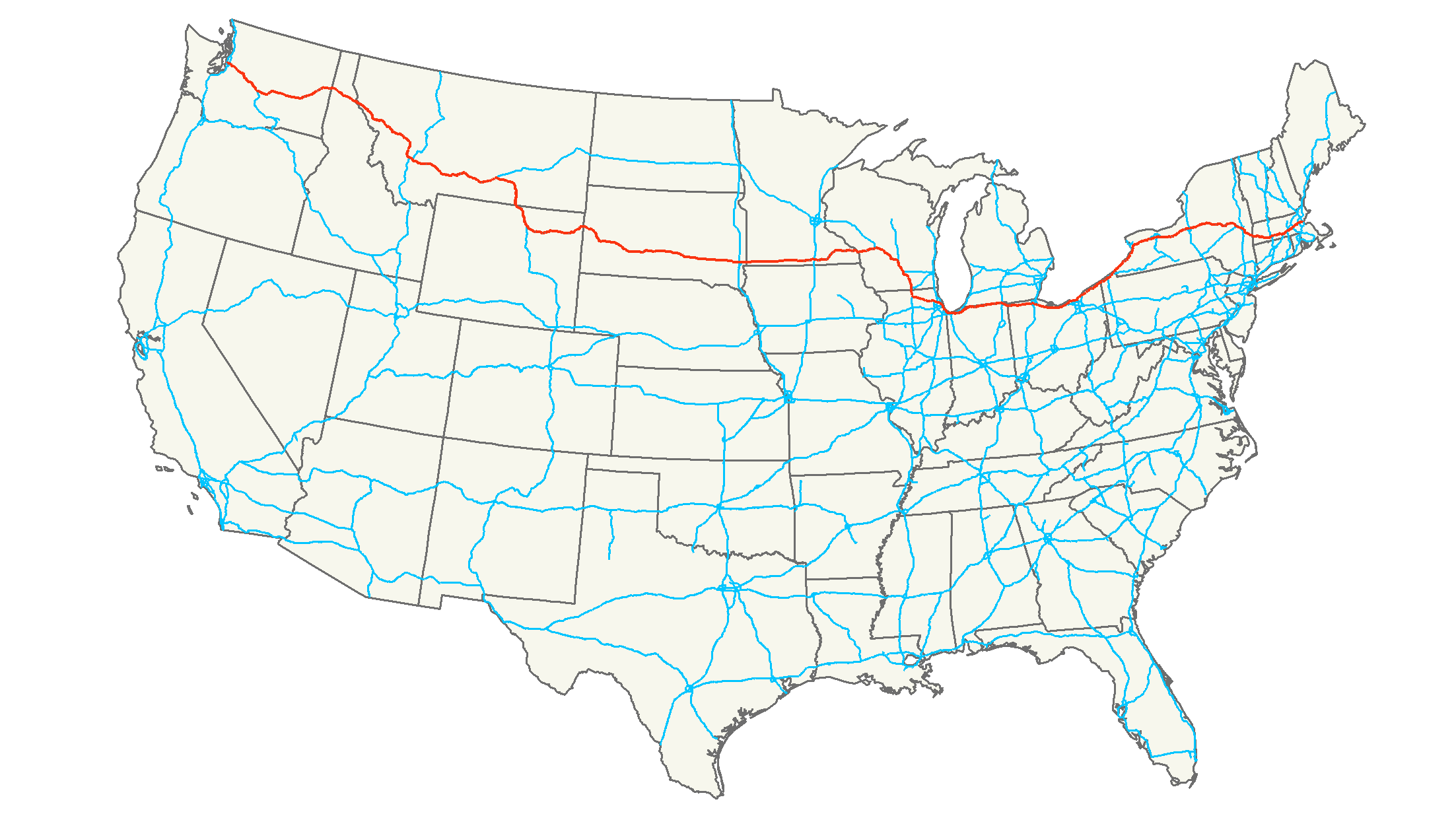 Map of Interstate 90